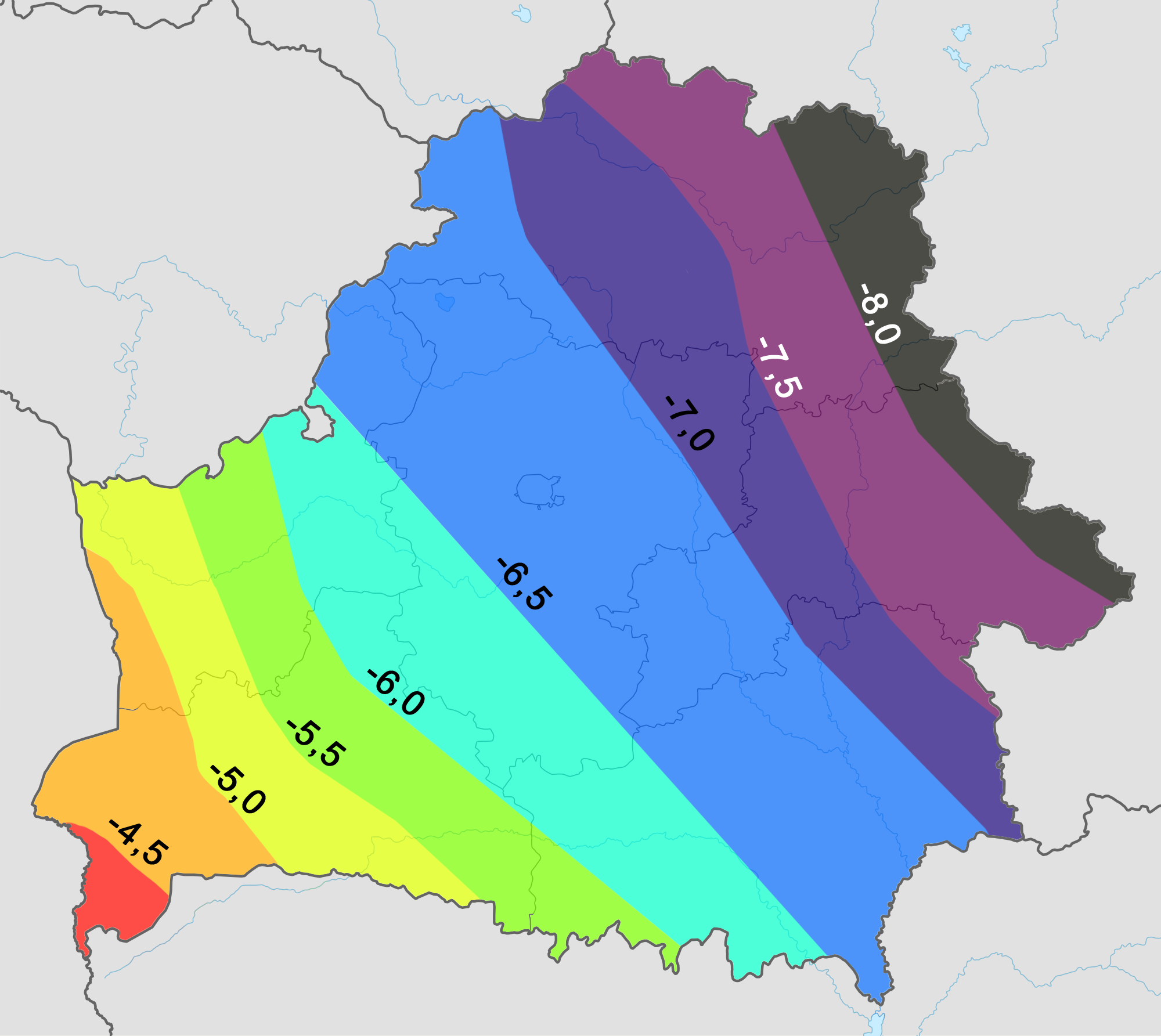 Average temperature in Belarus in January (Celsius). Data according to Belarusian Encyclopedia (Vol. 18, Part 2, Minsk, 2004, p. 41)